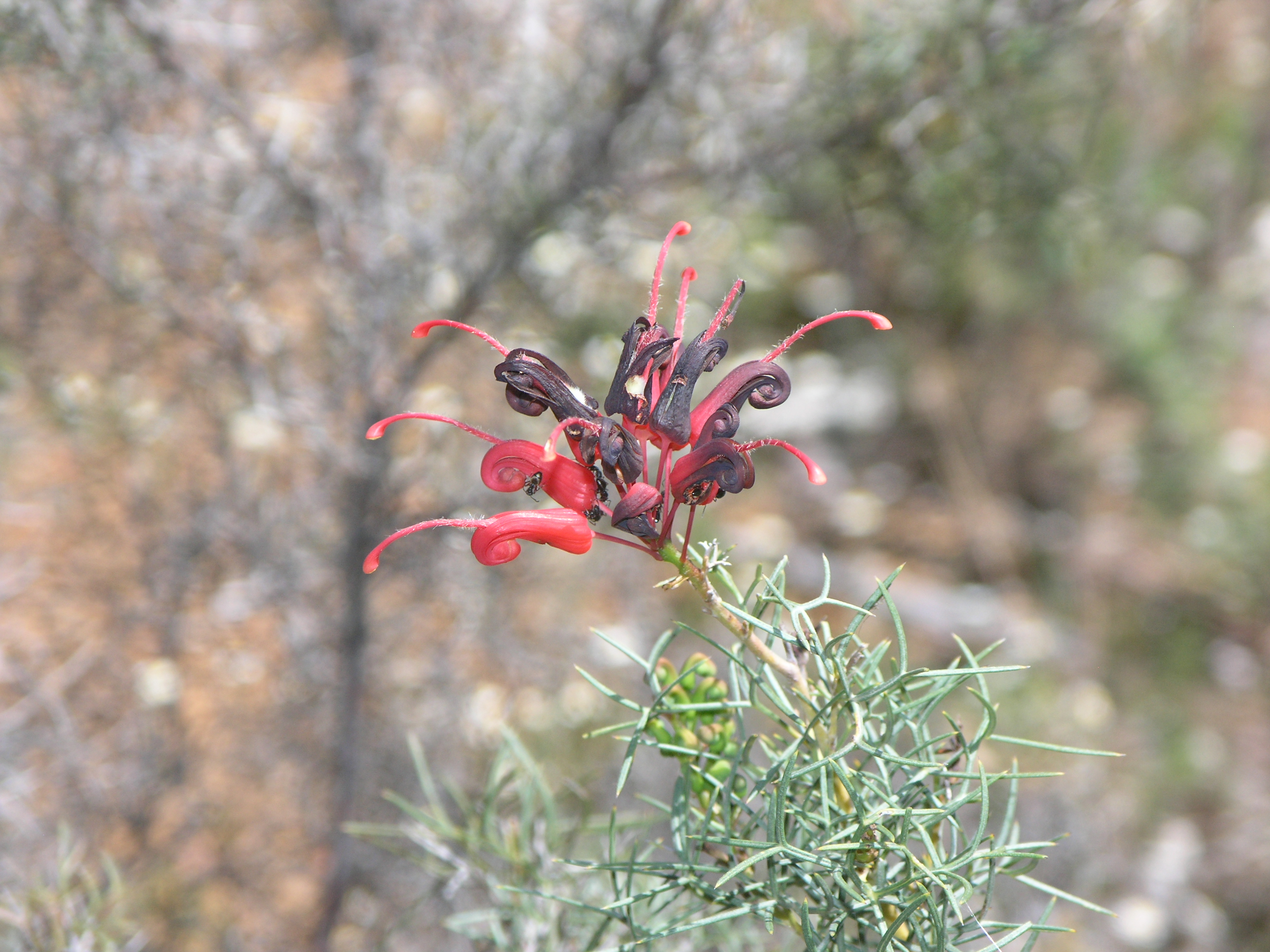 Grevillea bipinnatifida wilsonii taken in Jarrahdale, near Perth, Western Australia.